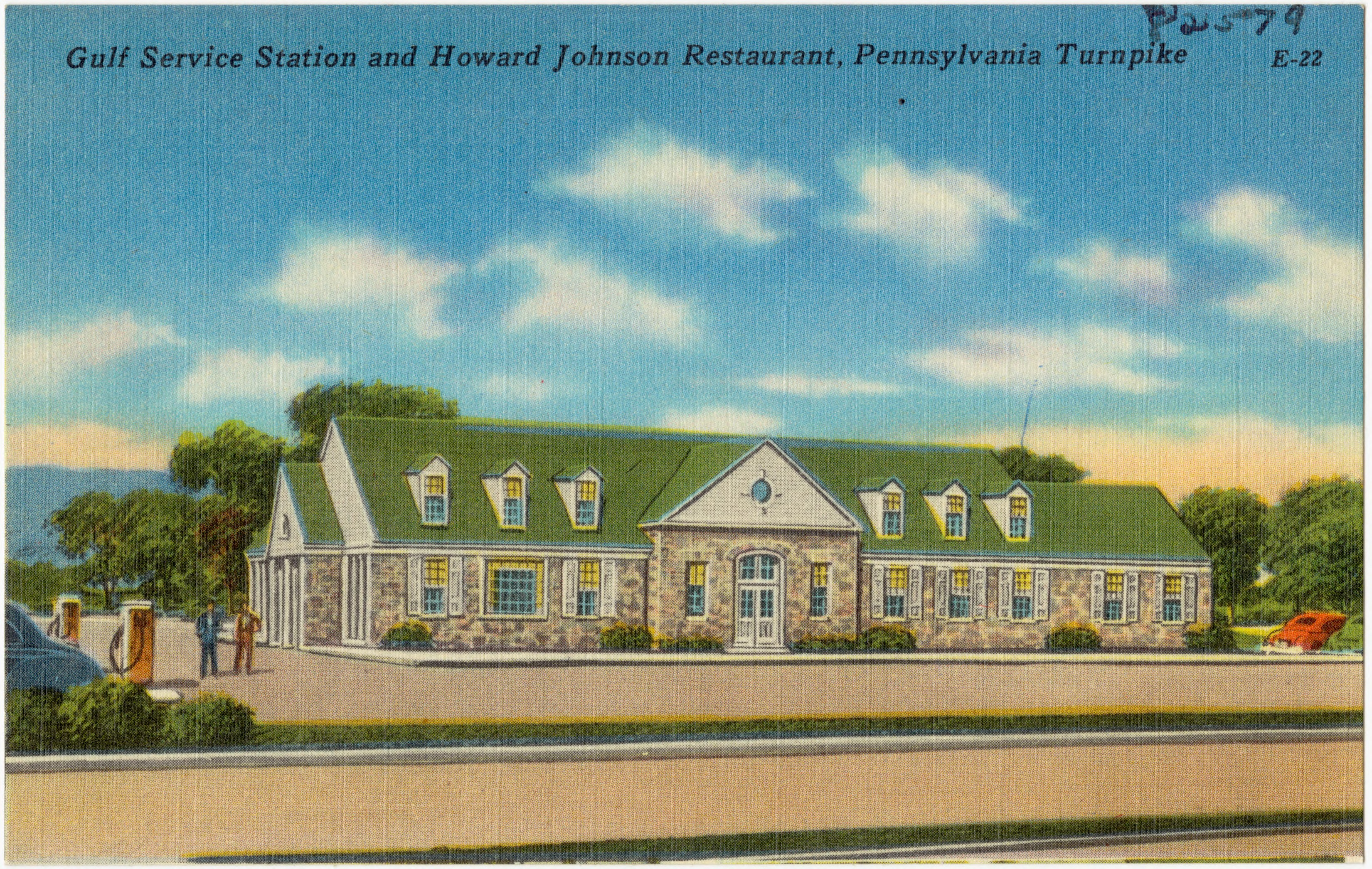 Title: Gulf Service Station and Howard Johnson Restaurant, Pennsylvania Turnpike Subjects: Restaurants; Automobile service stations Places: Pennsylvania Notes: Title from item. Extent: 1 print (postcard) : linen texture, color ; 3 1/2 x 5 1/2 in. Accession #: 06_10_017962